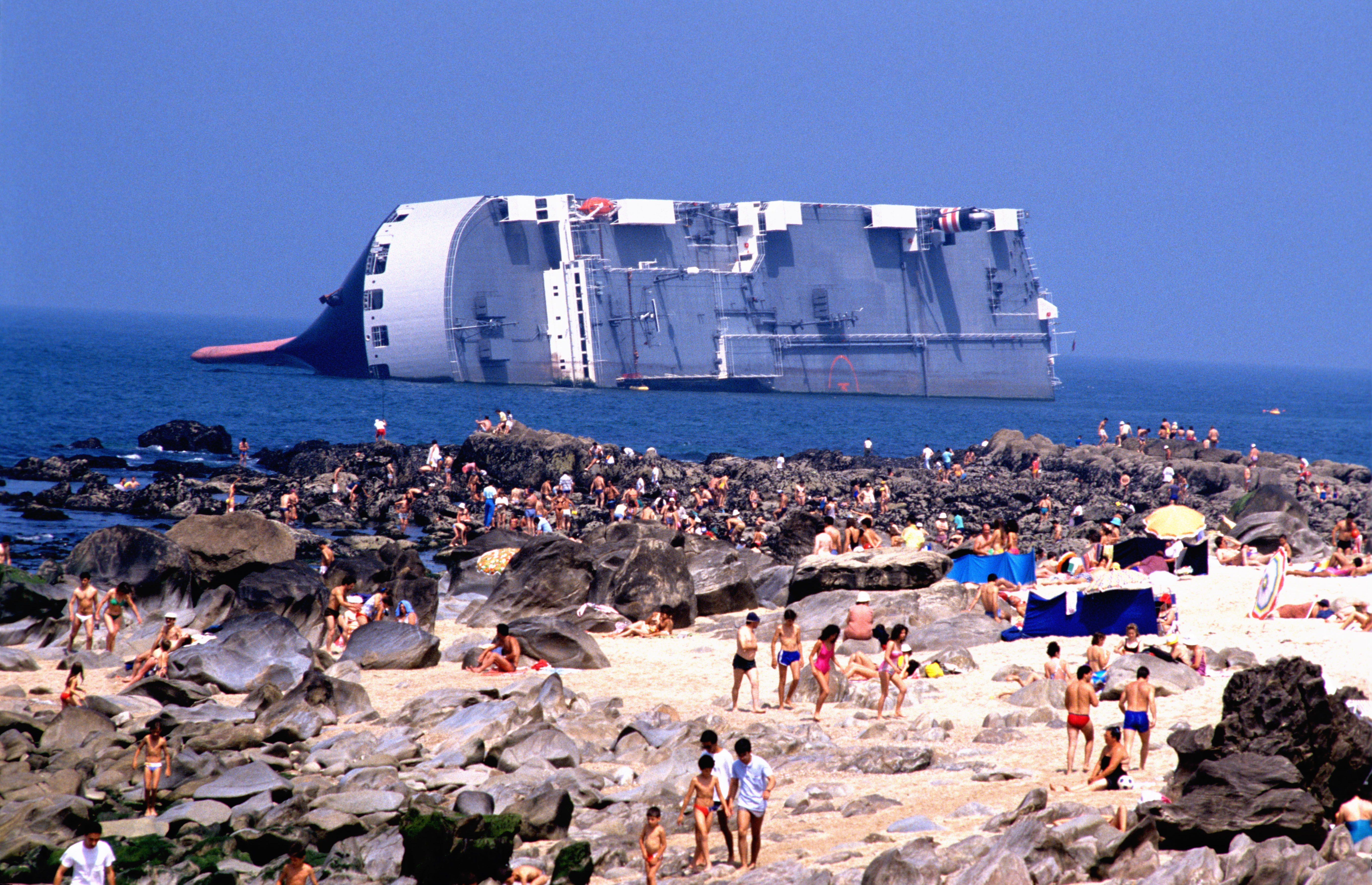 The stranded japanese car carrier "Reijin" on the Madalena beach near O Porto (Portugal).